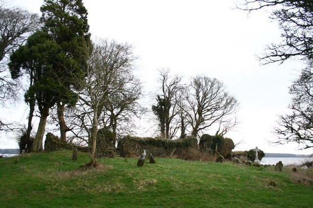 Ruined church and graveyard. Ancient ruined church and graveyard at Portloman on the SW shore of Lough Owel